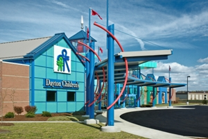 Springboro